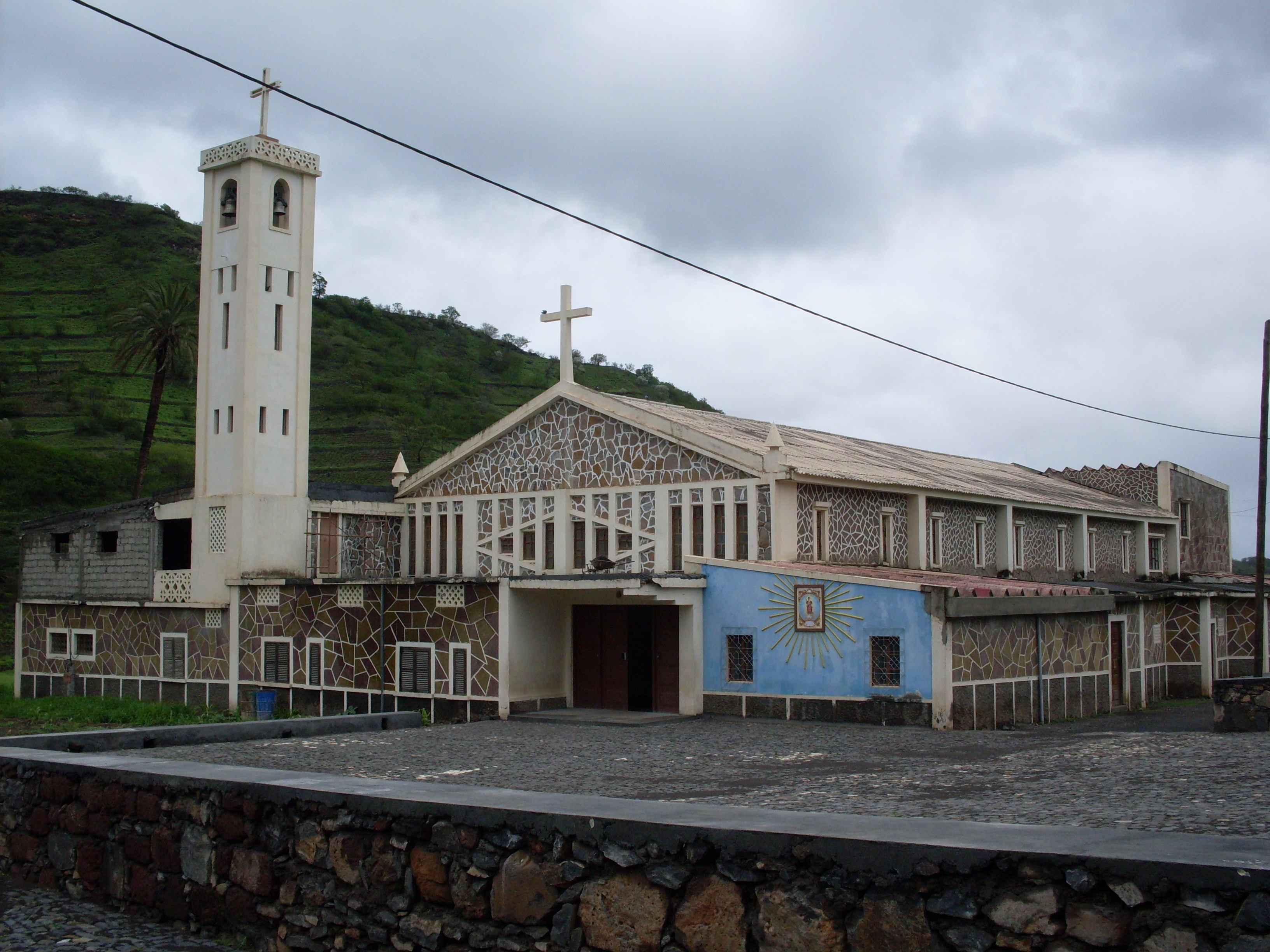 The church of São Lourenço dos Órgãos, near Órgãos, in Santiago, Cape Verde